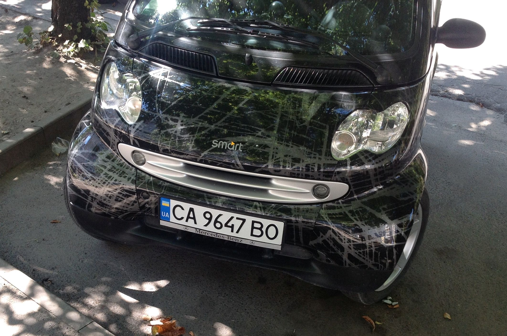 Nēhiyawēwin / ᓀᐦᐃᔭᐍᐏᐣ: Vehicle registration plates of Ukraine